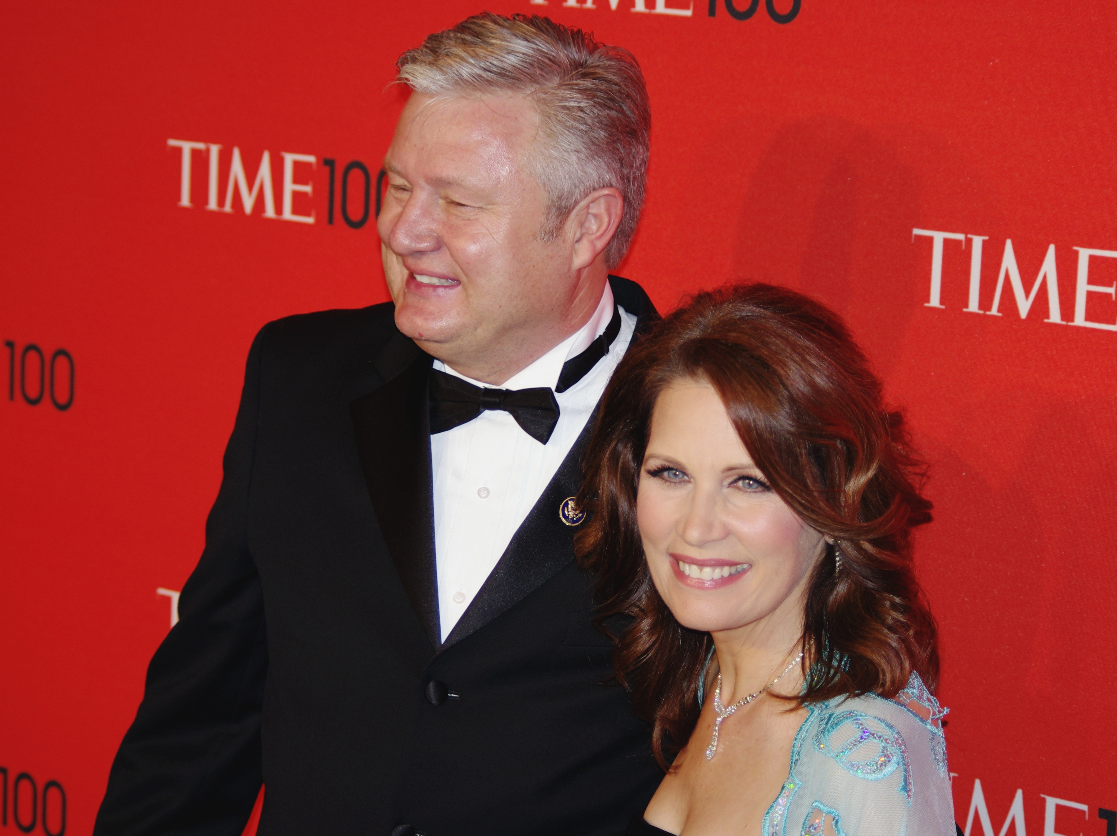 Marcus Bachmann with his wife Michele Bachmann at the 2011 Time 100 gala.